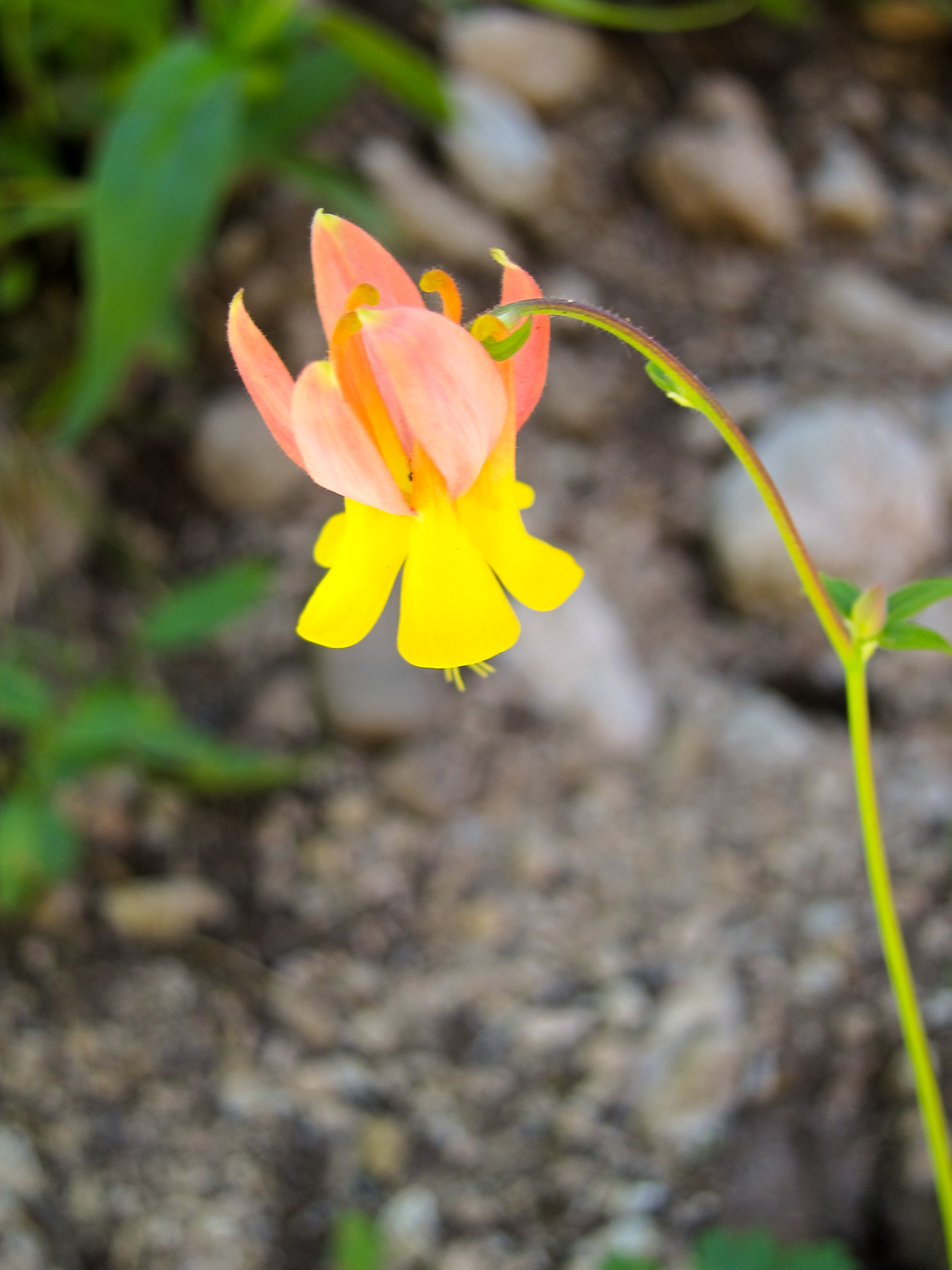 Western columbine (Aquilegia formosa) at Alpine Lake in Sawtooth Wilderness